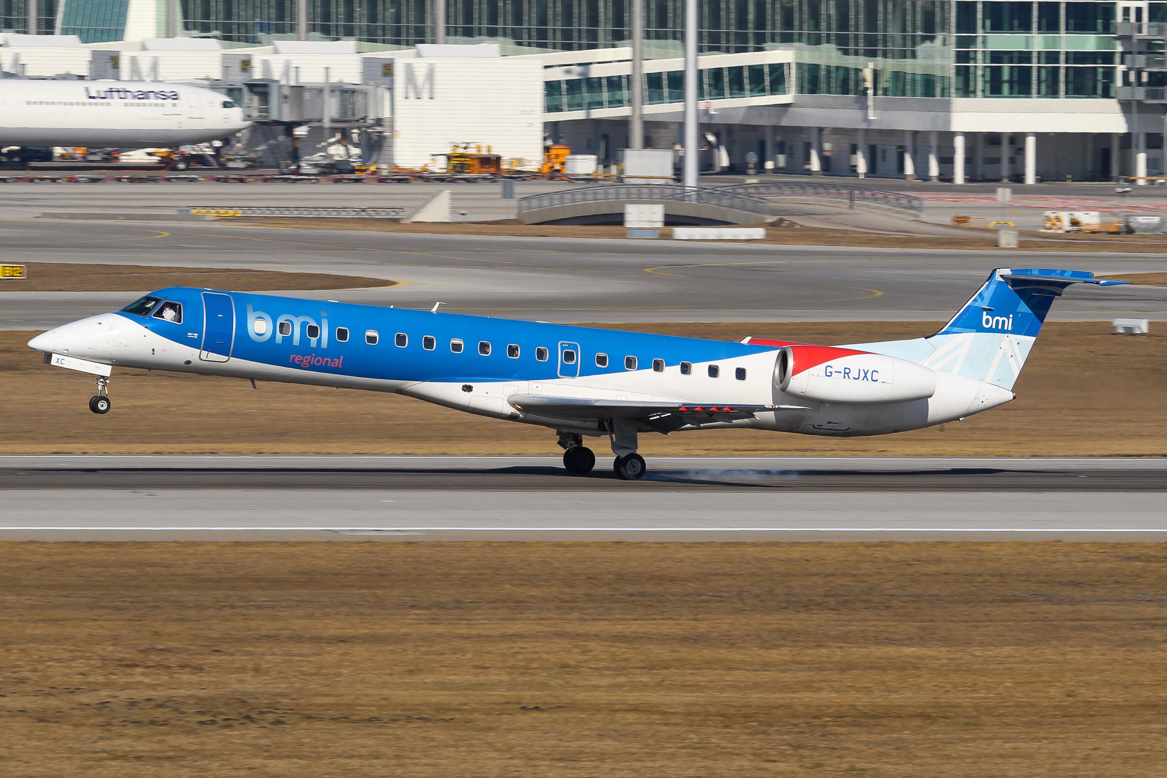 Bmi Regional Embraer ERJ-145 landing at Munich Airport.